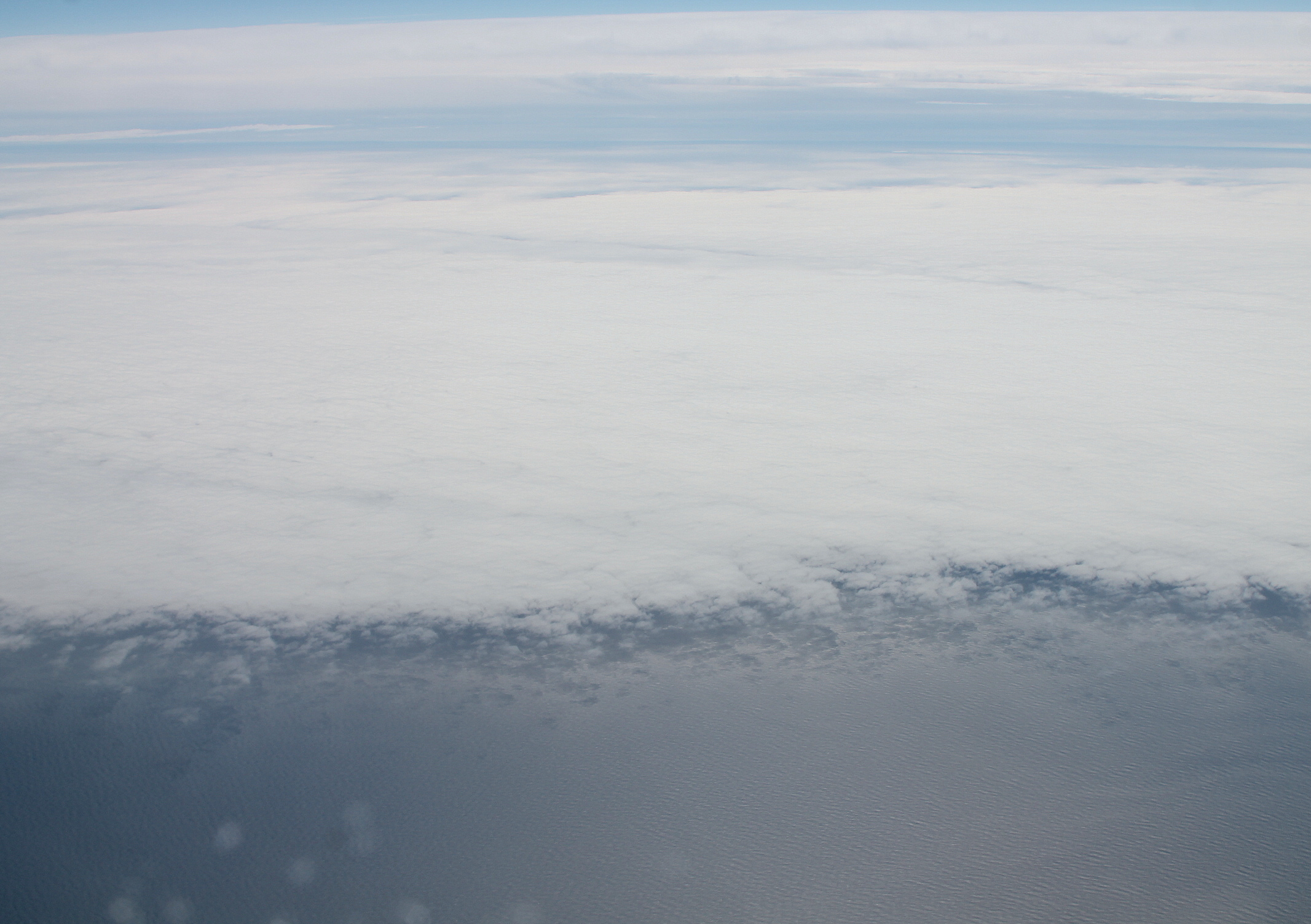 Cloud cover over the North Atlantic Ocean, as seen from an airplane at 10,000–11,000 ft (1.9–2.1 mi; 3.0–3.4 km).